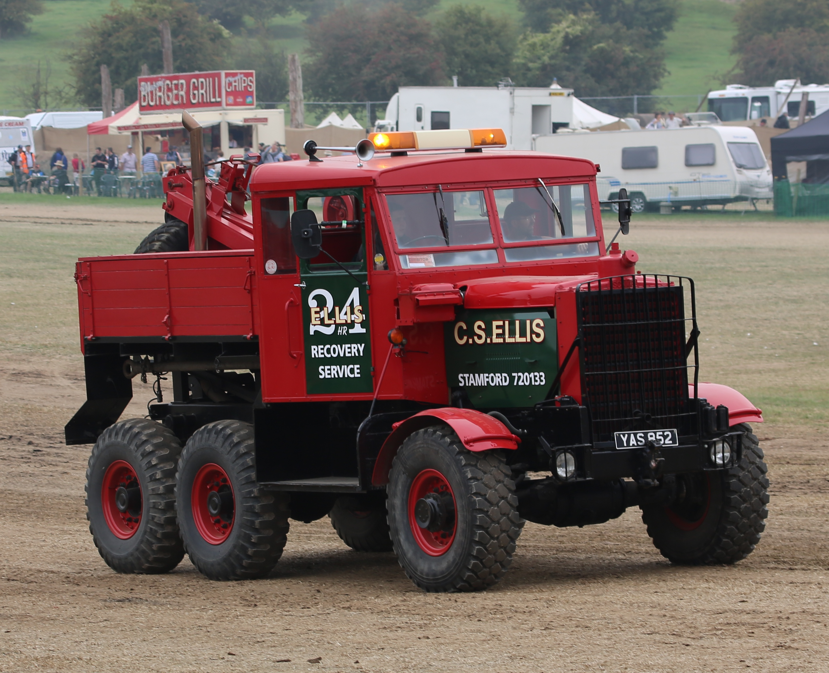 Photo of a 1955 Scammell Explorer fitted as a heavy recovery vehicle